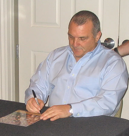 Cropped and retouched version of original - Daniel "Rudy" Ruettiger signs autographs after speaking at Ohio University